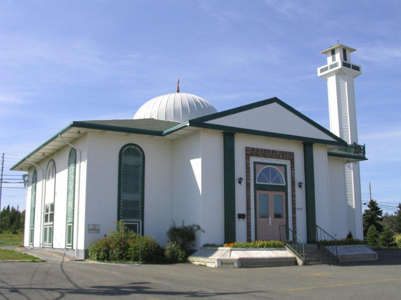 Photograph of the Masjid-an-Noor, Saint John's, Newfoundland and Labrador, Canada.